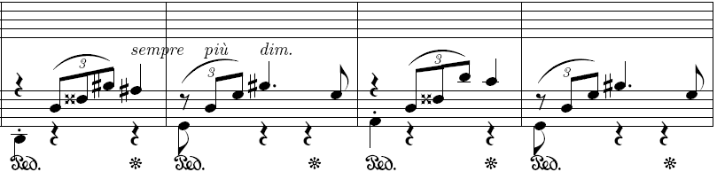 Middle section from Chopin's Nocturne No 20, Opus Posthumous, in C-sharp minor.